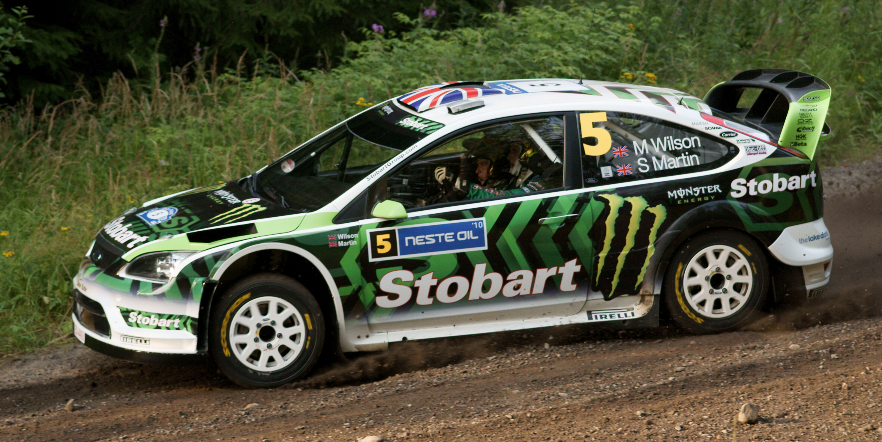 Matthew Wilson driving at Laajavuori special stage, Rally Finland 2010.